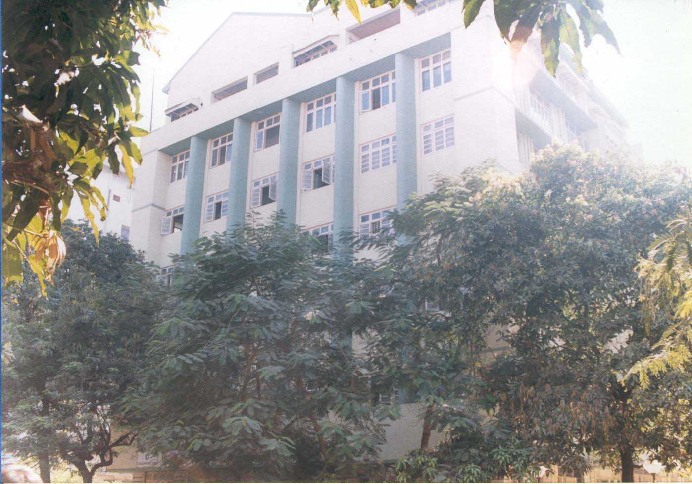 K.C. College